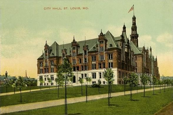 City Hall, St. Louis, MO; from a 1907 postcard. Designed by the St. Joseph, Missouri architectural firm of Eckel & Mann, it was built in 1893.